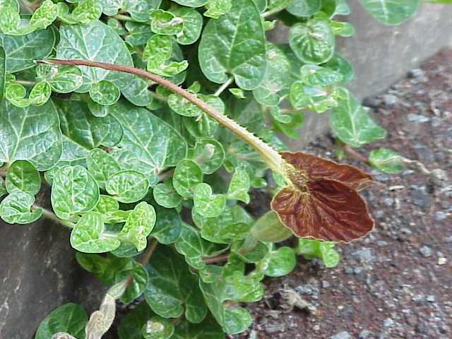 Species: Aristolochia lindneri Family: Aristolochiaceae Image No. 7